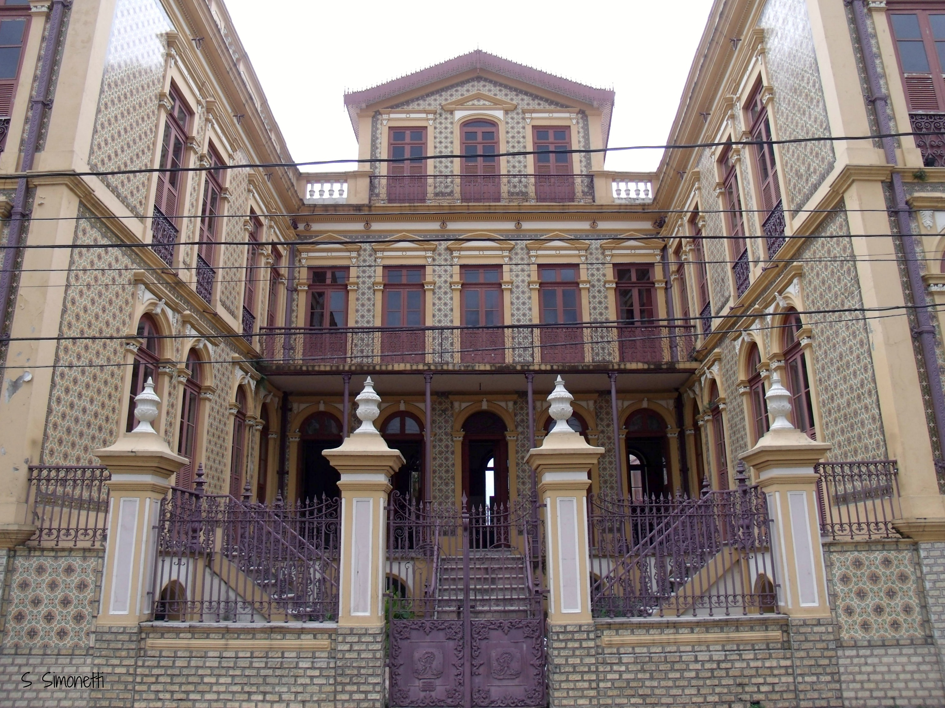 Pinho Palace, construction of the nineteenth century by Commander Antonio José de Pinho